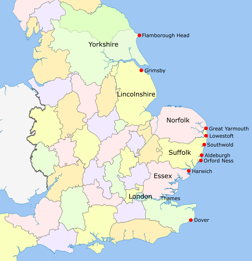 Landing sites considered suitable during German Empire planning for the invasion of the United Kingdom in the late 19th/early 20th century. Base map is a derivative of Data is sourced from The invasion of the United Kingdom : public controversy and official planning 1888-1918, a PhD thesis written July 1968 by Howard Roy Moon, pp. 669–670